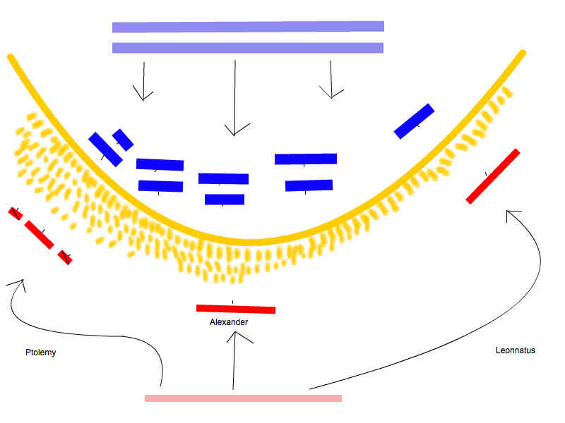 Cophen Campaign